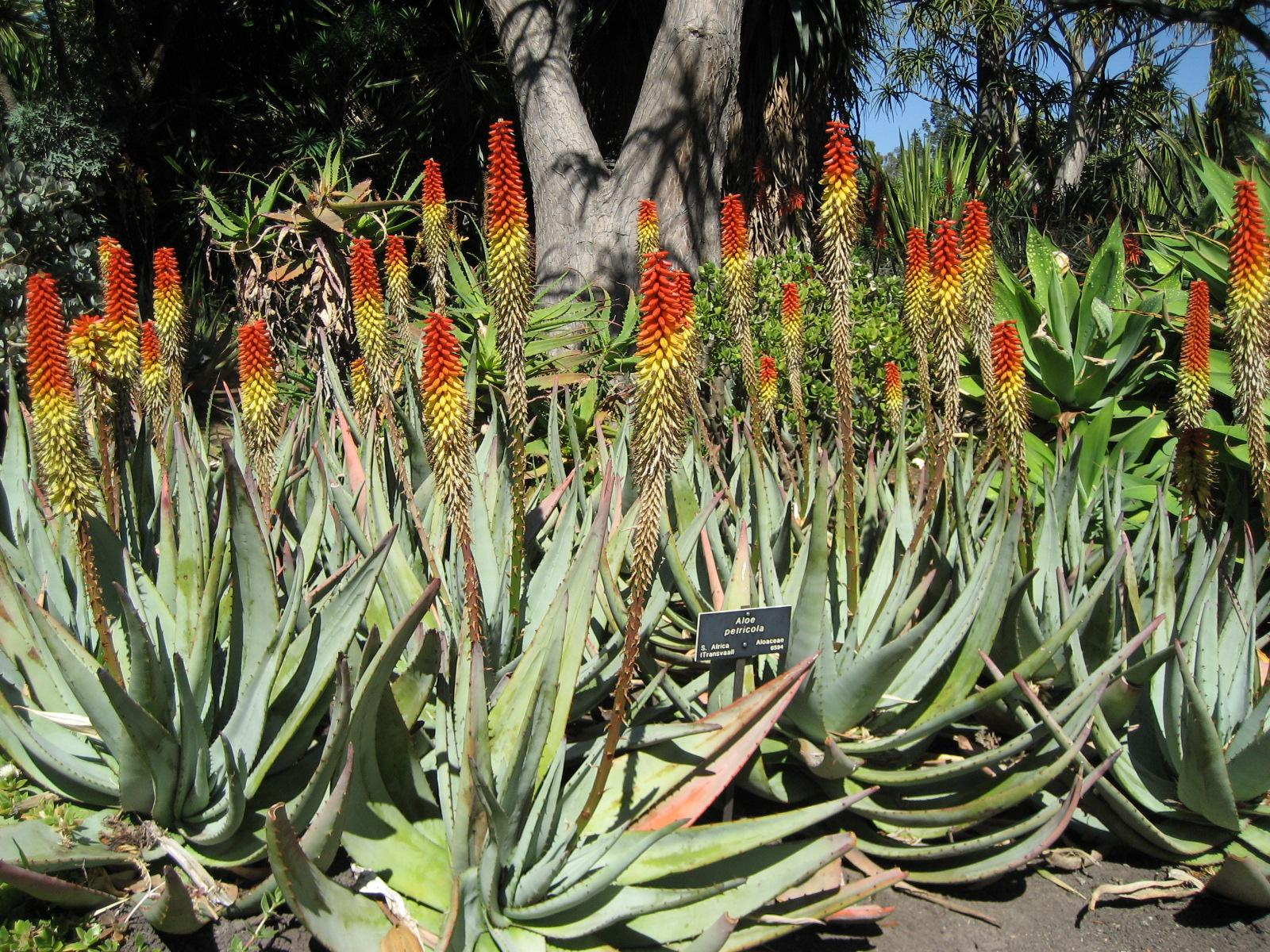 Photographed at Huntington Gardens (Los Angeles) in March